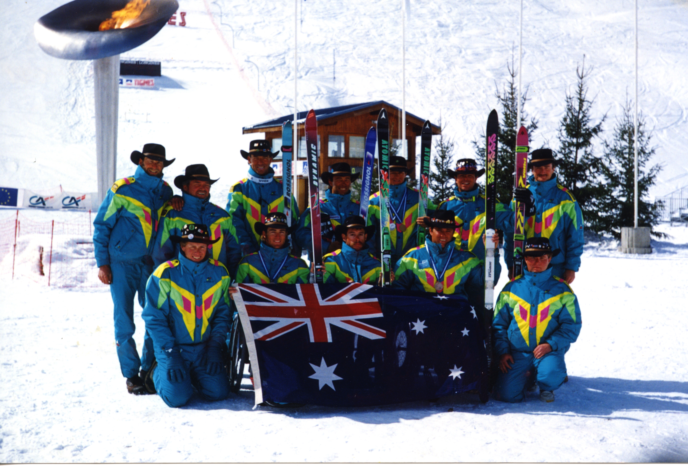 the Australian Paralympic Team at the 1992 Winter Games in Albertville